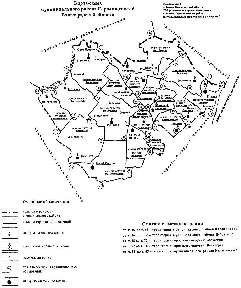 Map of Gorodishchensky municipal district of Volgograd Olast